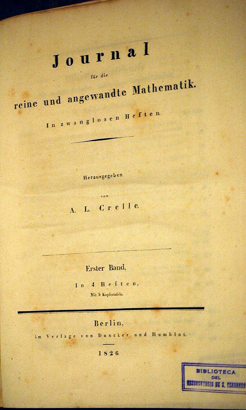 Front page of first number of Crelle's Journal (Journal für die reine und angewandte Mathematik)